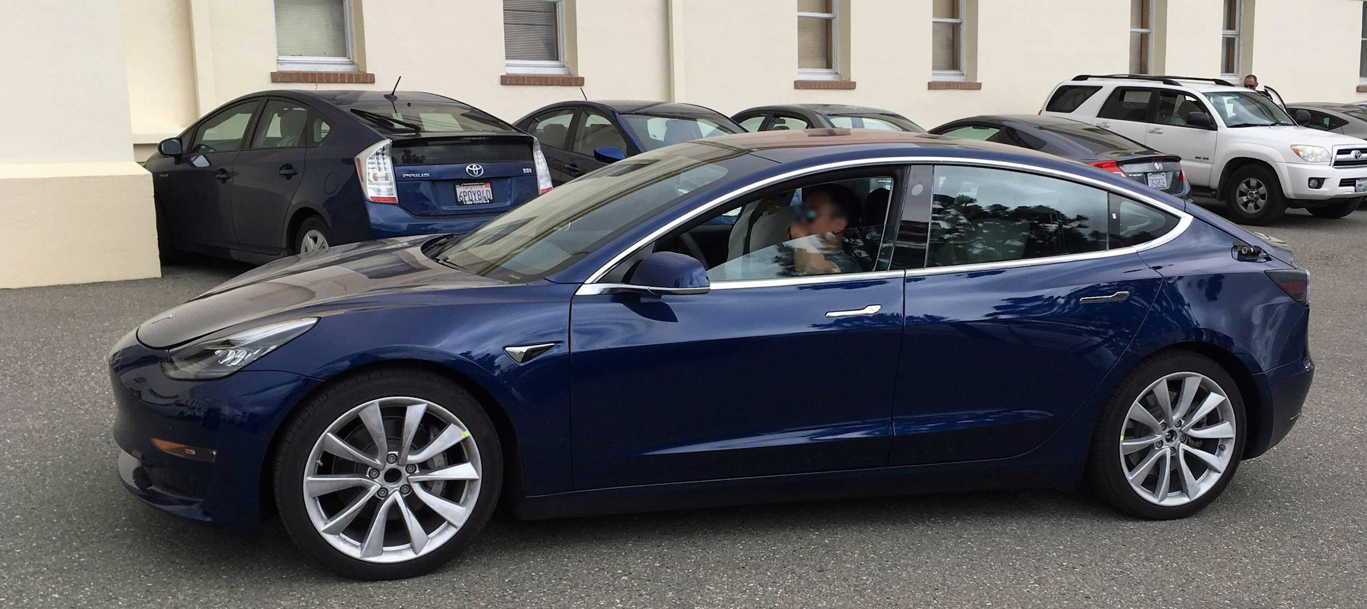 Tesla model 3 prototype